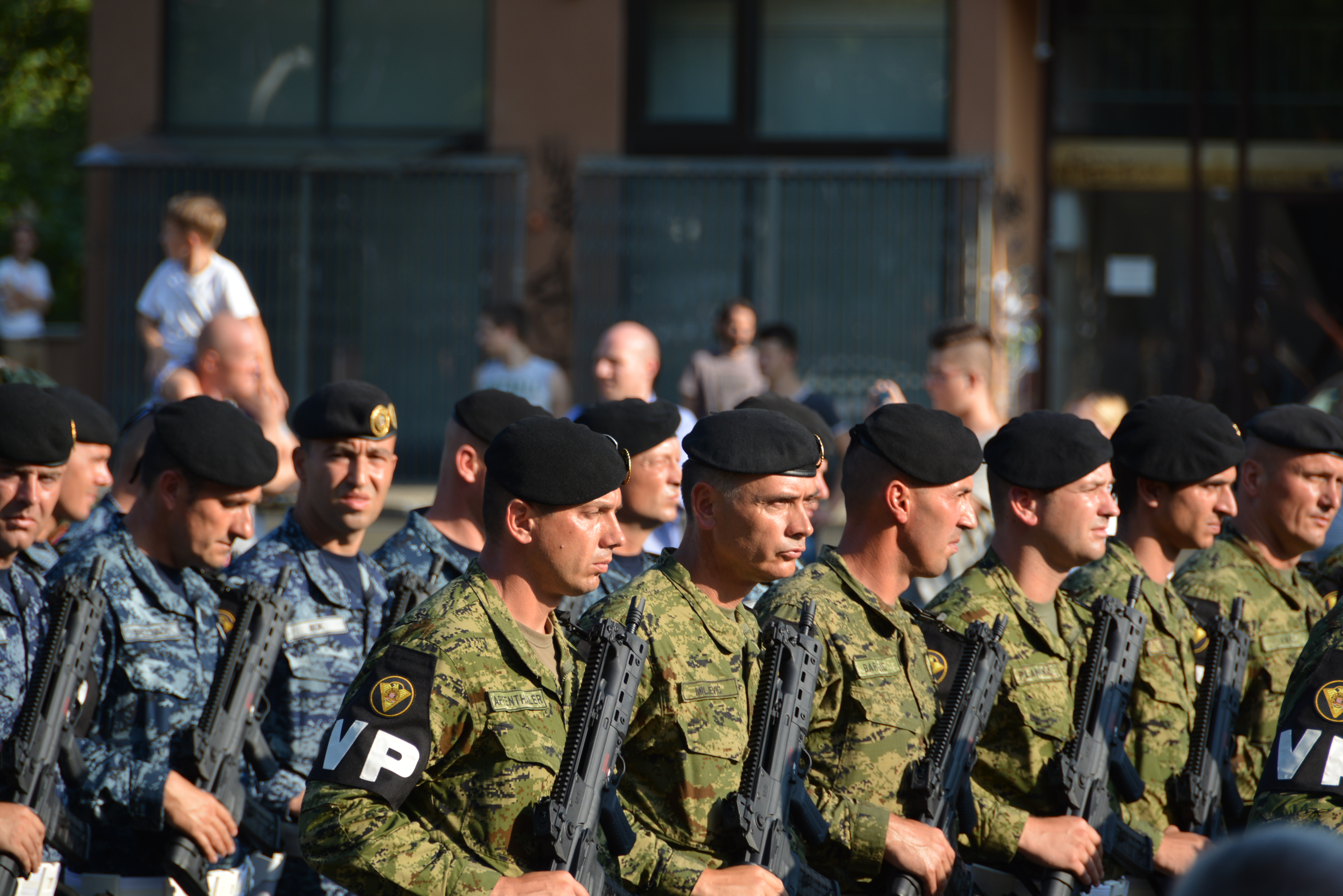 Victory Day parade in Zagreb.